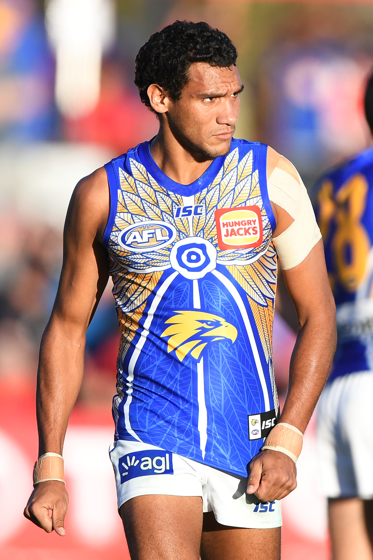 Francis Watson of West Coast during the 2019 AFL round 18 match between Melbourne and West Coast at Traeger Park on Sunday, 21 July 2019 in Alice Springs, Northern Territory.